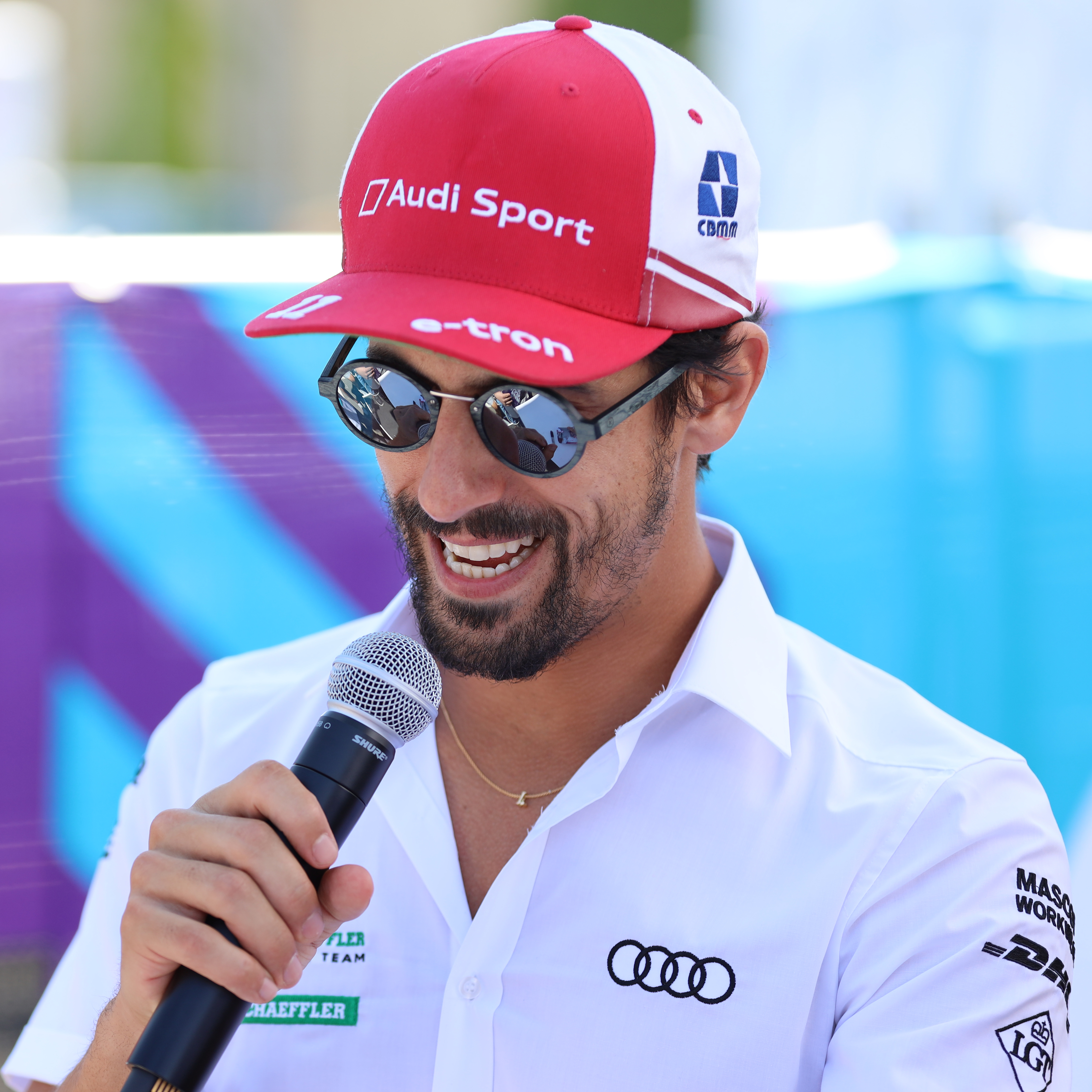 Lucas Di Grassi talking with fans during an Audi eTron event before the 2019 NYC EPRIX